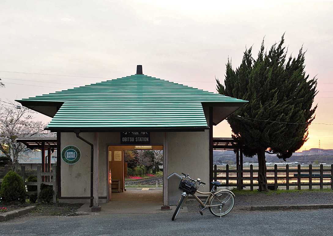 JR East Obitsu Station